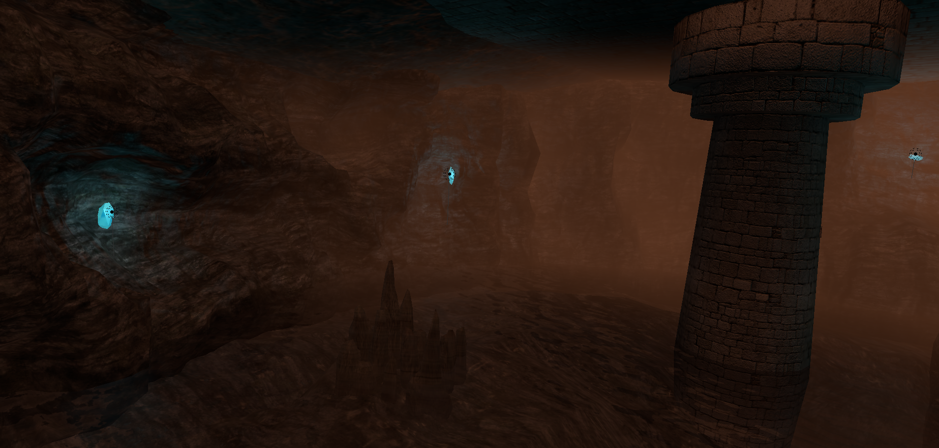 This is a picture of the cave troll level of Sintel The Game.